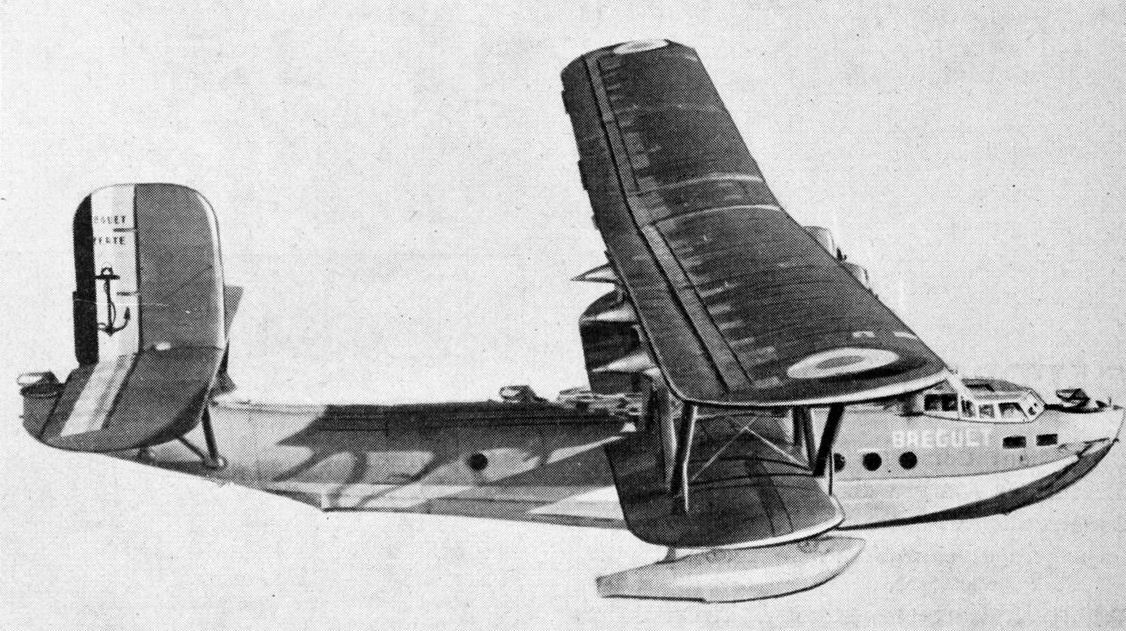 Breguet 521 photo from Le Pontentiel Aérien Mondial 1936